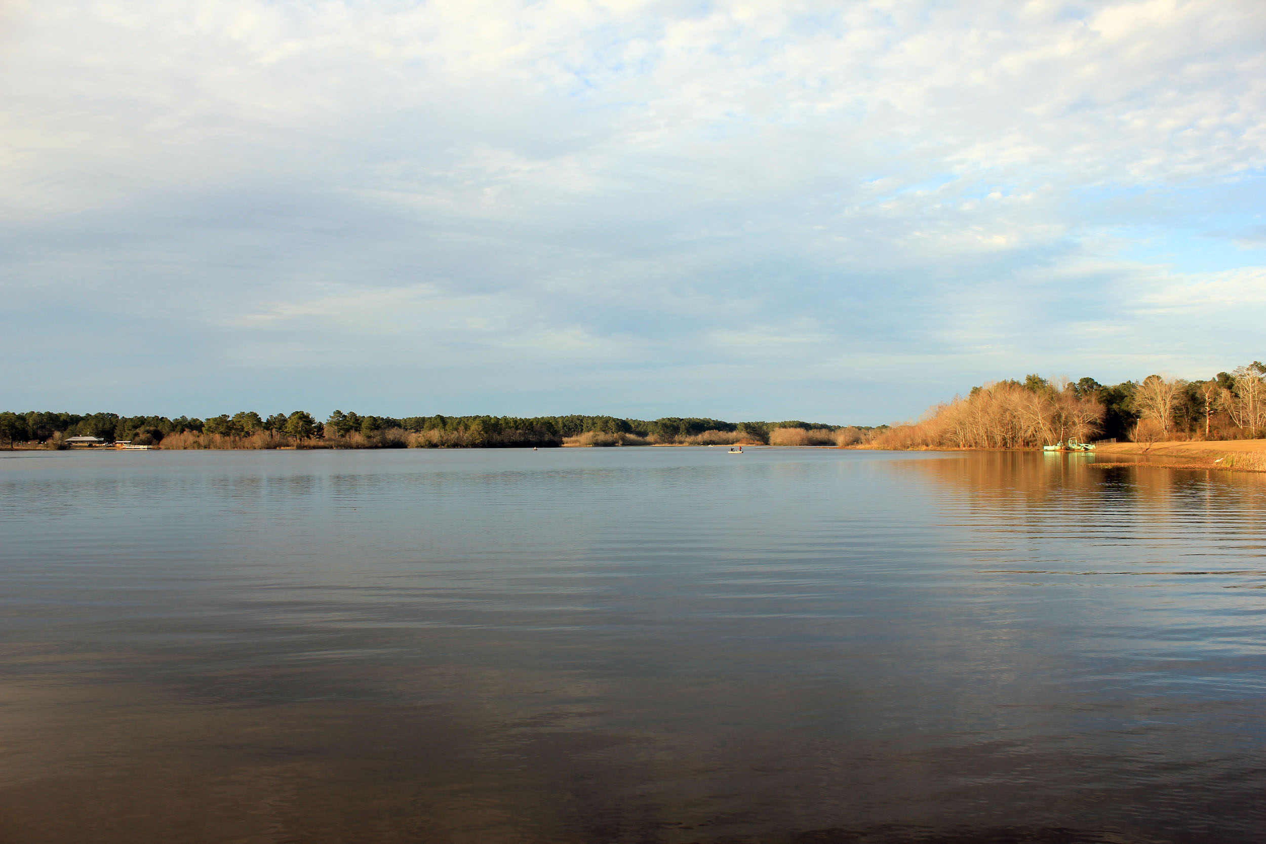 Main lake of Reed-Bingham State Park